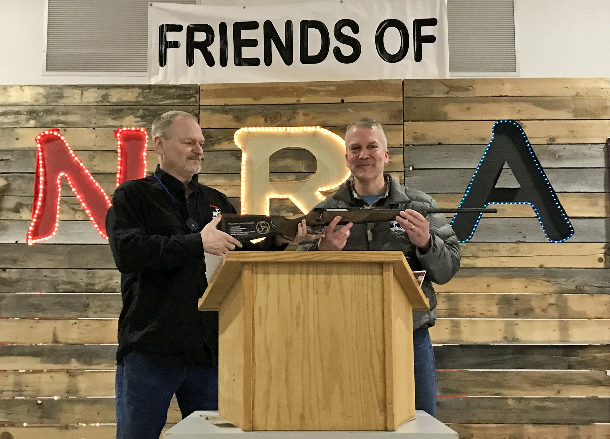 Last, but not least, I had a blast visiting with friends, celebrating our Second Amendment, and checking out the firearms at the Mat-Su Friends of the NRA Banquet in Palmer. Thanks to all who came out!